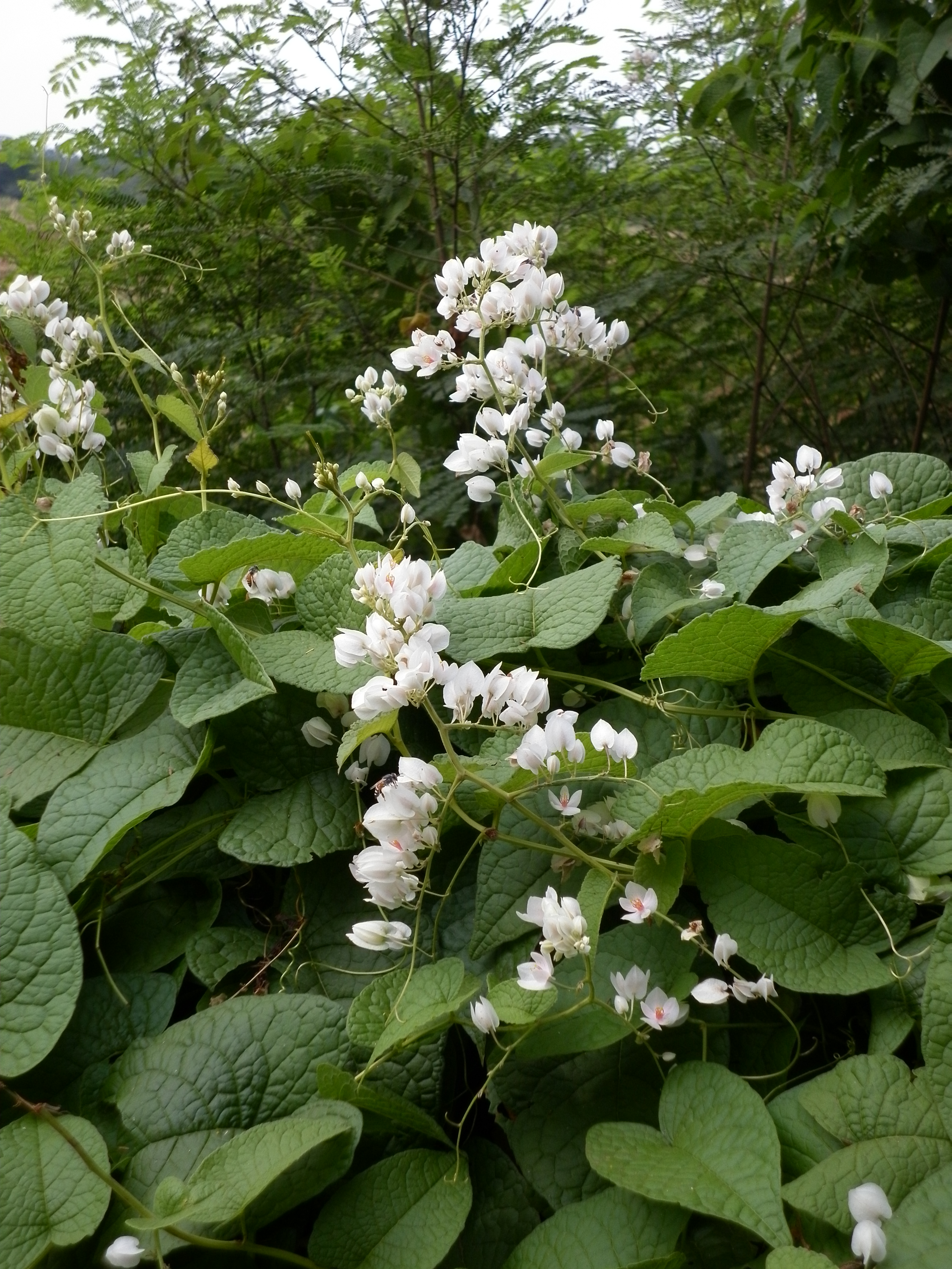 This is a white colored flowering variety of Love chain